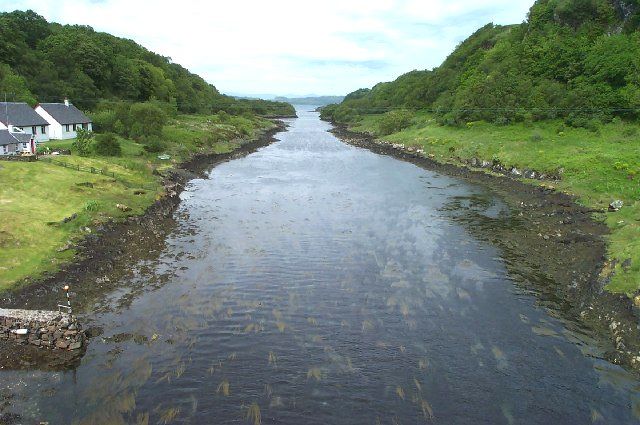 View from the Clachan Bridge. The narrow course of Clachan sound as seen from the bridge (looking northwards). On the left is Seil Island. On the right the mainland.